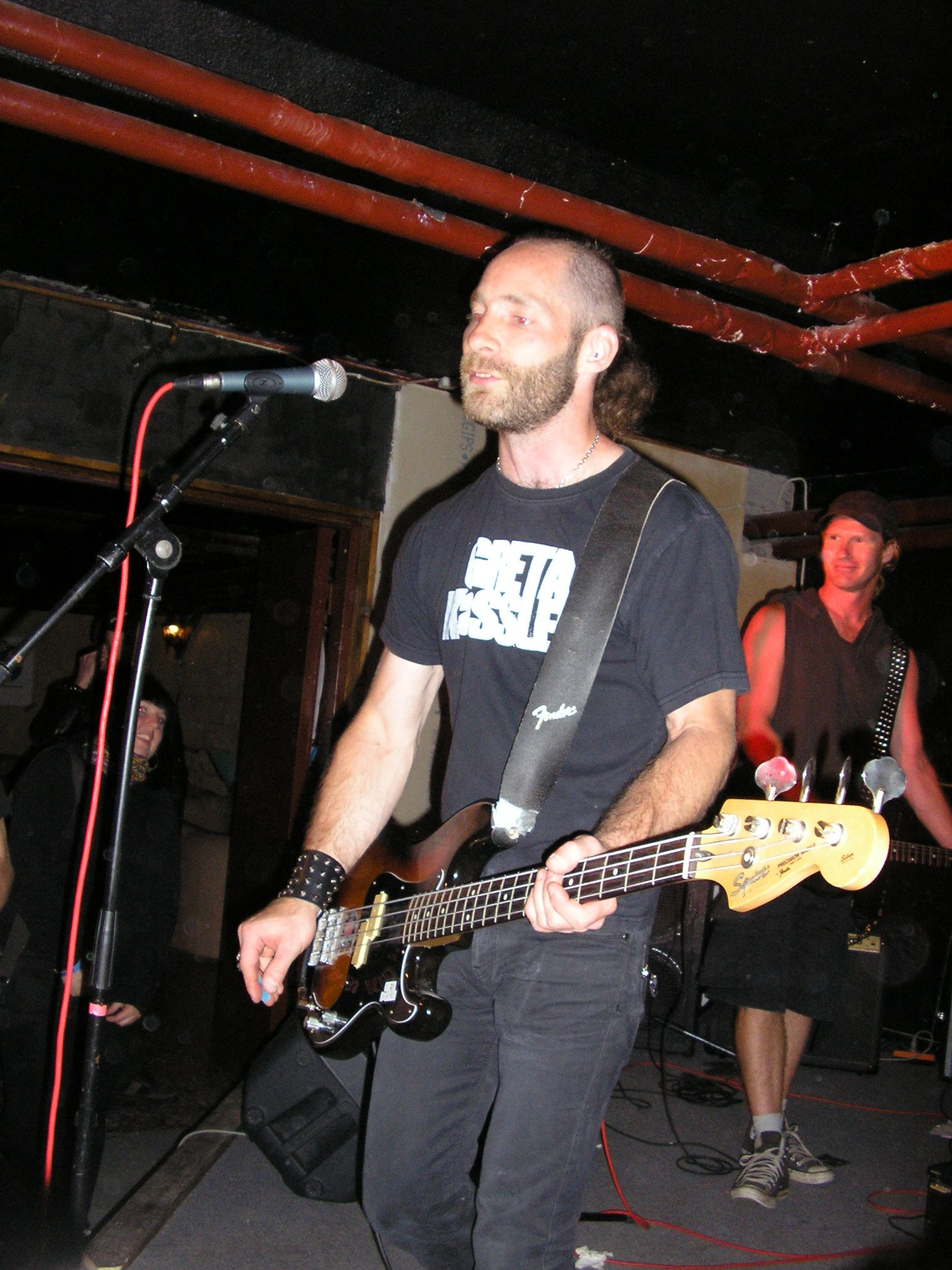 Greta Kassler playing at pre-party before Augustibuller 2007.